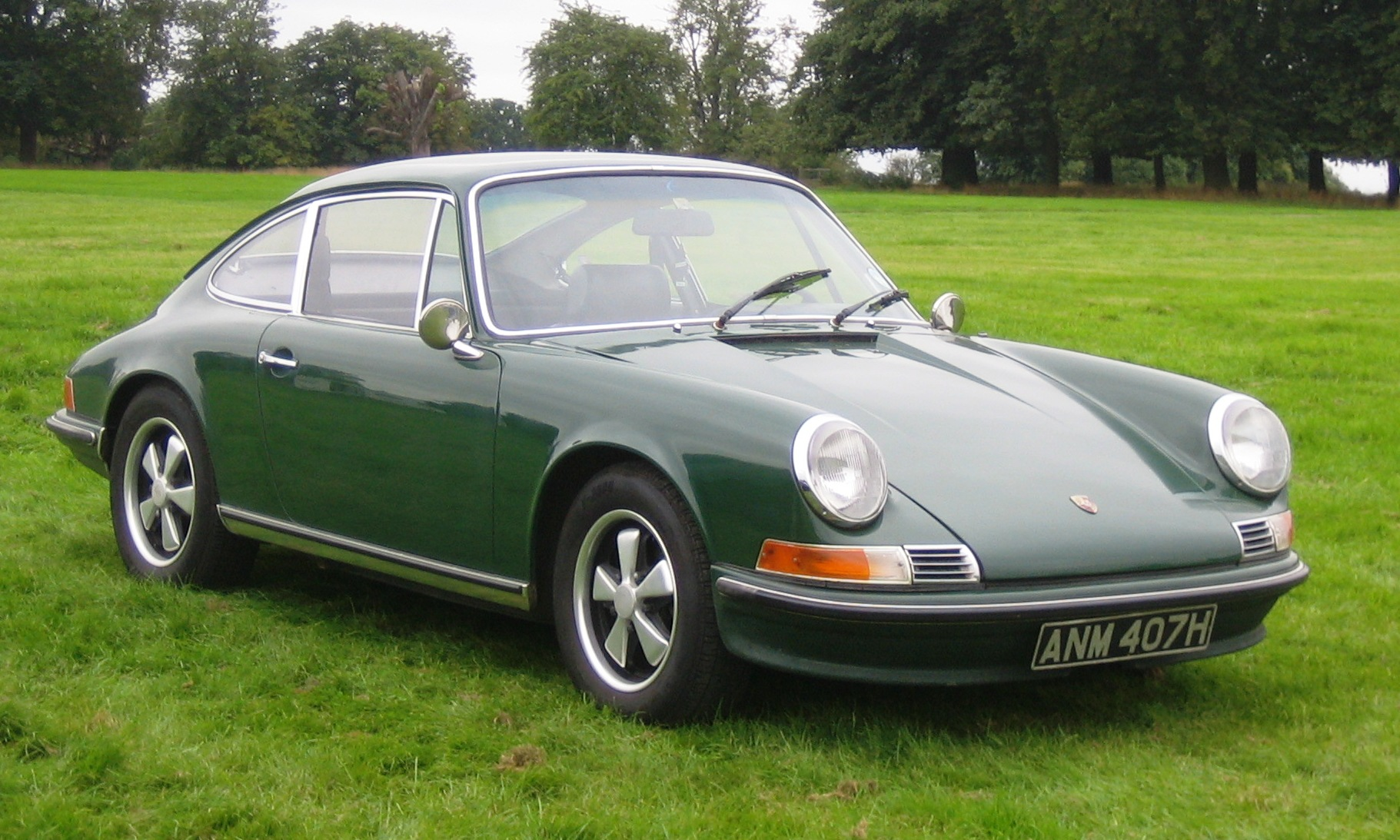 Porsche 911E at Knebworth Date of first registration in UK: November 2004 Declared Year of manufacture: 1970 Engine size Cylinder capacity (cc): 2195 cc